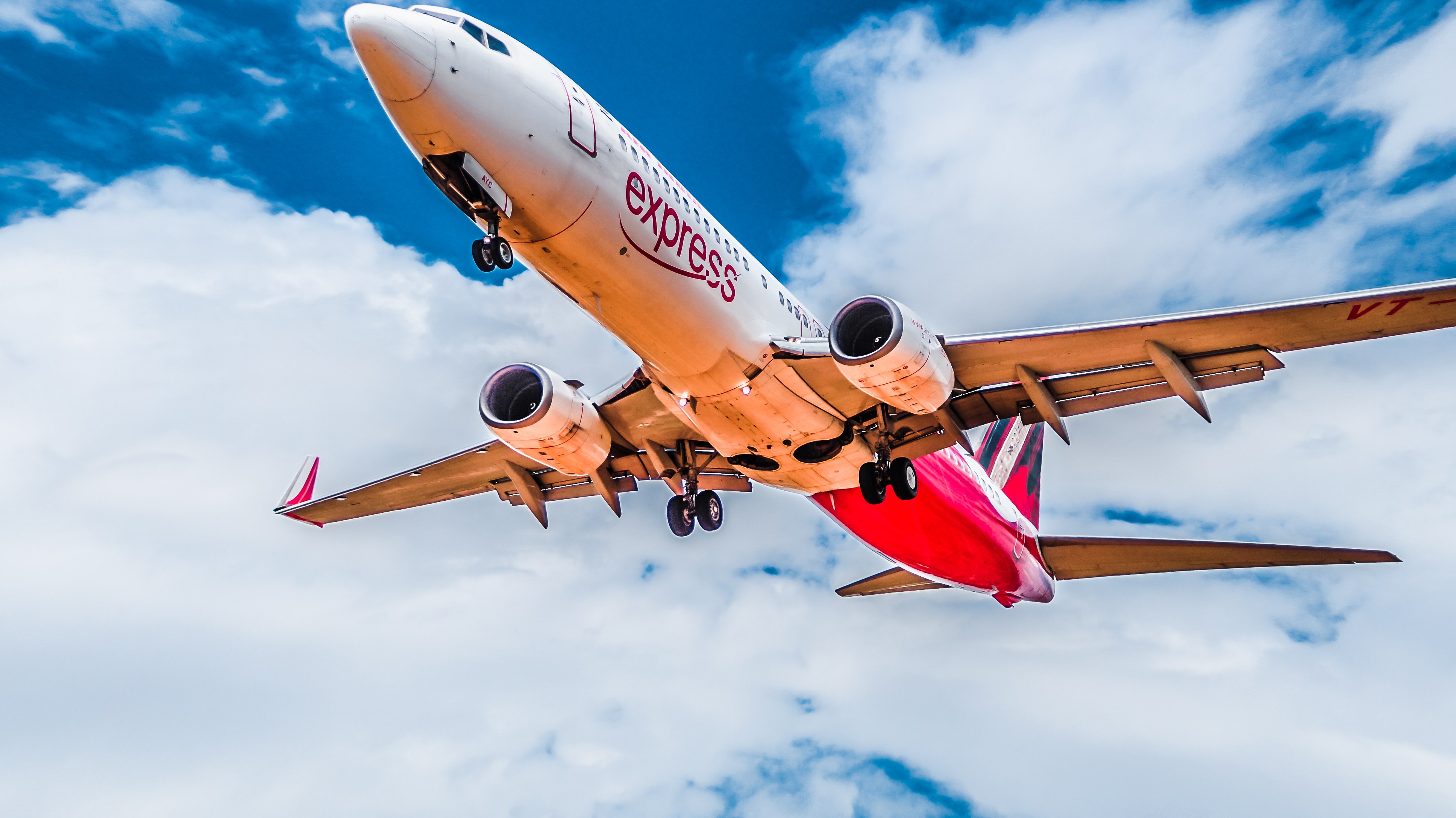 Flight about to land